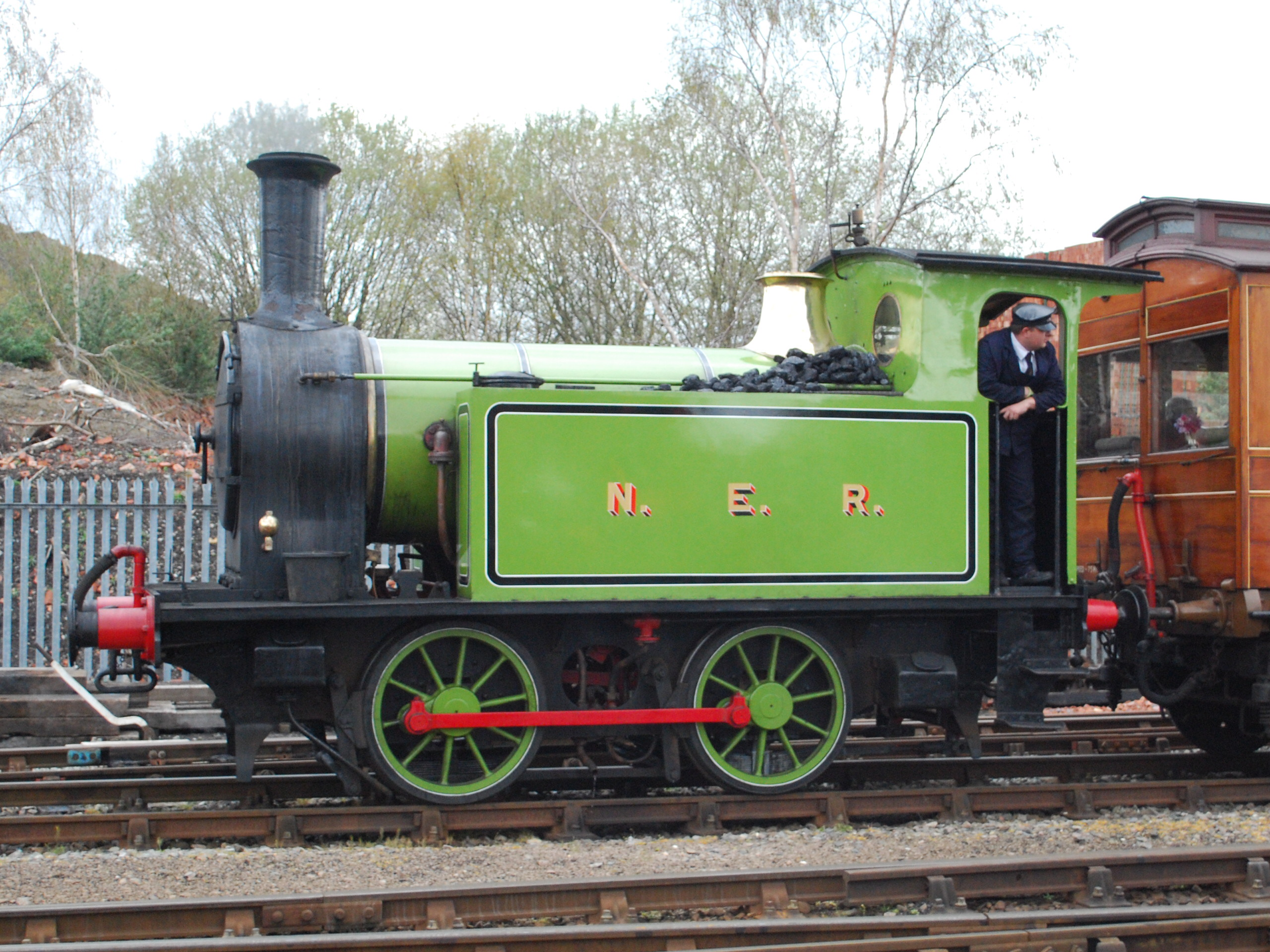 North Eastern Railway T.W. Worsdell Class "H" (LNER Class "Y7") 0-4-0T No.1310 (LNER No.1310N) in NER Saxony Green livery on the Barrow Hill shuttle, 04/12. What a gem of a little loco! Built at the NER Works at Gateshead 1891 to an 1888 design for dock and yard shunting where there were very tight curves and sub-standard track. It was a simple design of the bare essentials - but proved ideal for their work and were built up to 1923 (the last batch by the LNER) and remained in BR sewrvice until 1952. However, half the class were sold into colliery/industrial use from 1933 onwards, including No.1310 which went to Pelaw Main Collieries Ltd in 1931 and it became NCB No.64 in 1949. It was sold for preservation as late as 1965 - a hard working life of 74 years!